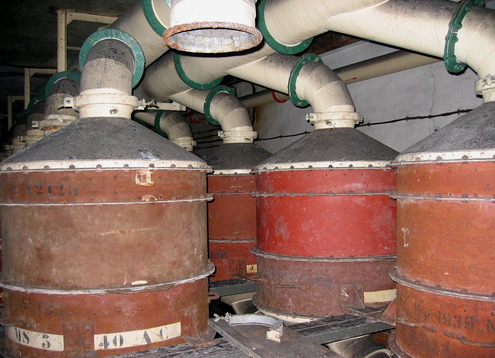 Filter room at the entrace to Ouvrage Billig